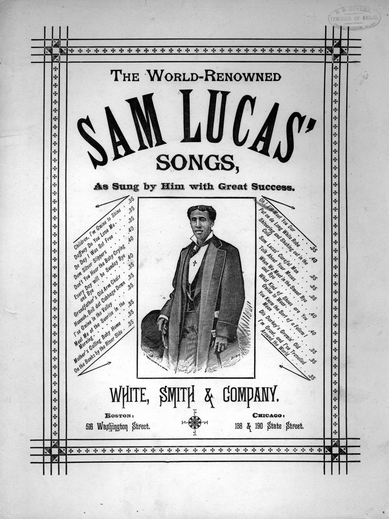 engraved portrait of Sam Lucas / Barritt. a cover for Sam Lucas' Songs.